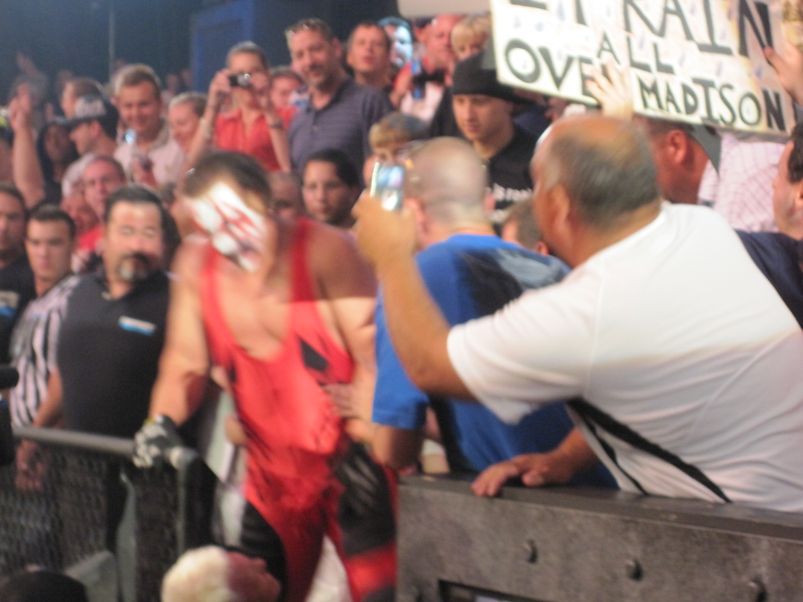 Sunday, June 12, 2011. Universal Orlando